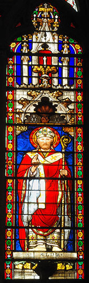 Church of Saint-Eutrope in Clermont-Ferrand, stained glasses Saint Alyre (Clermont), Puy-de-Dôme, France. Translations in other languages are welcome.